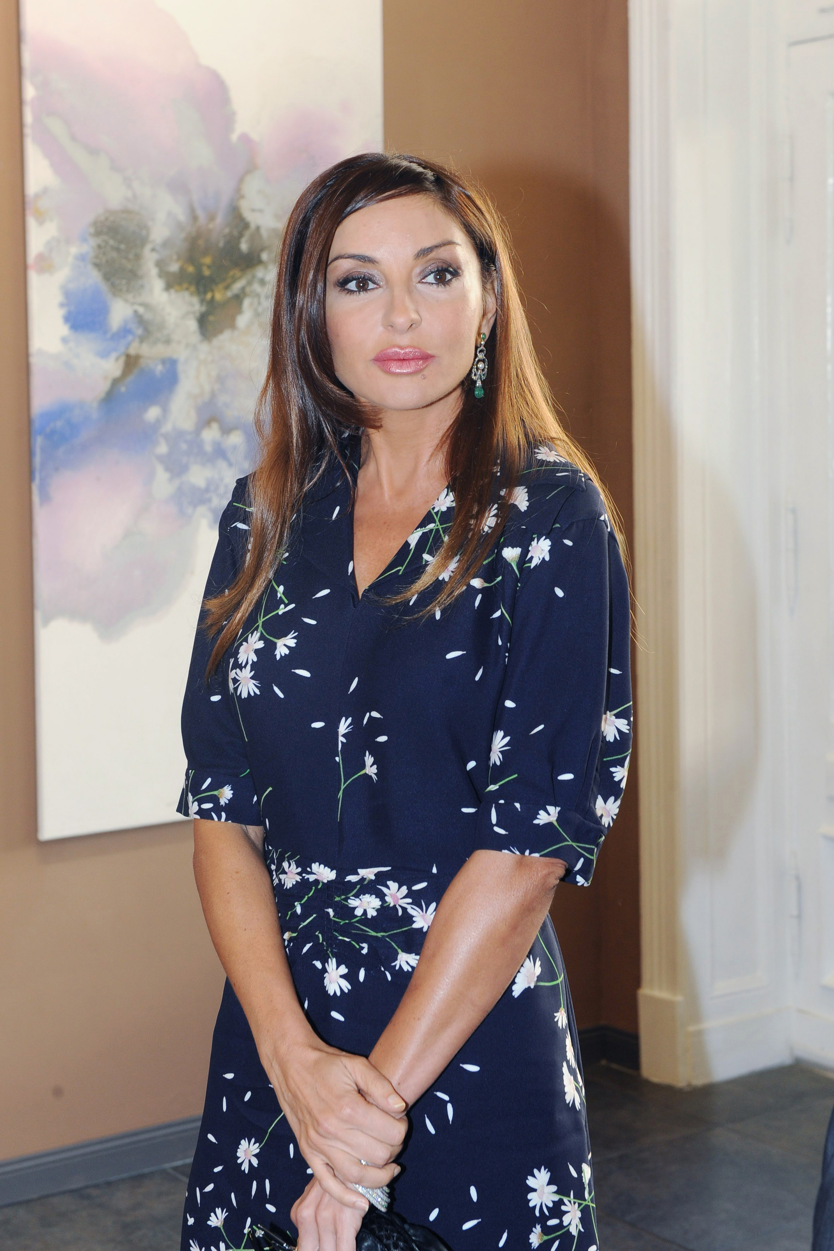 Mehriban Aliyeva - First Lady of Azerbaijan.